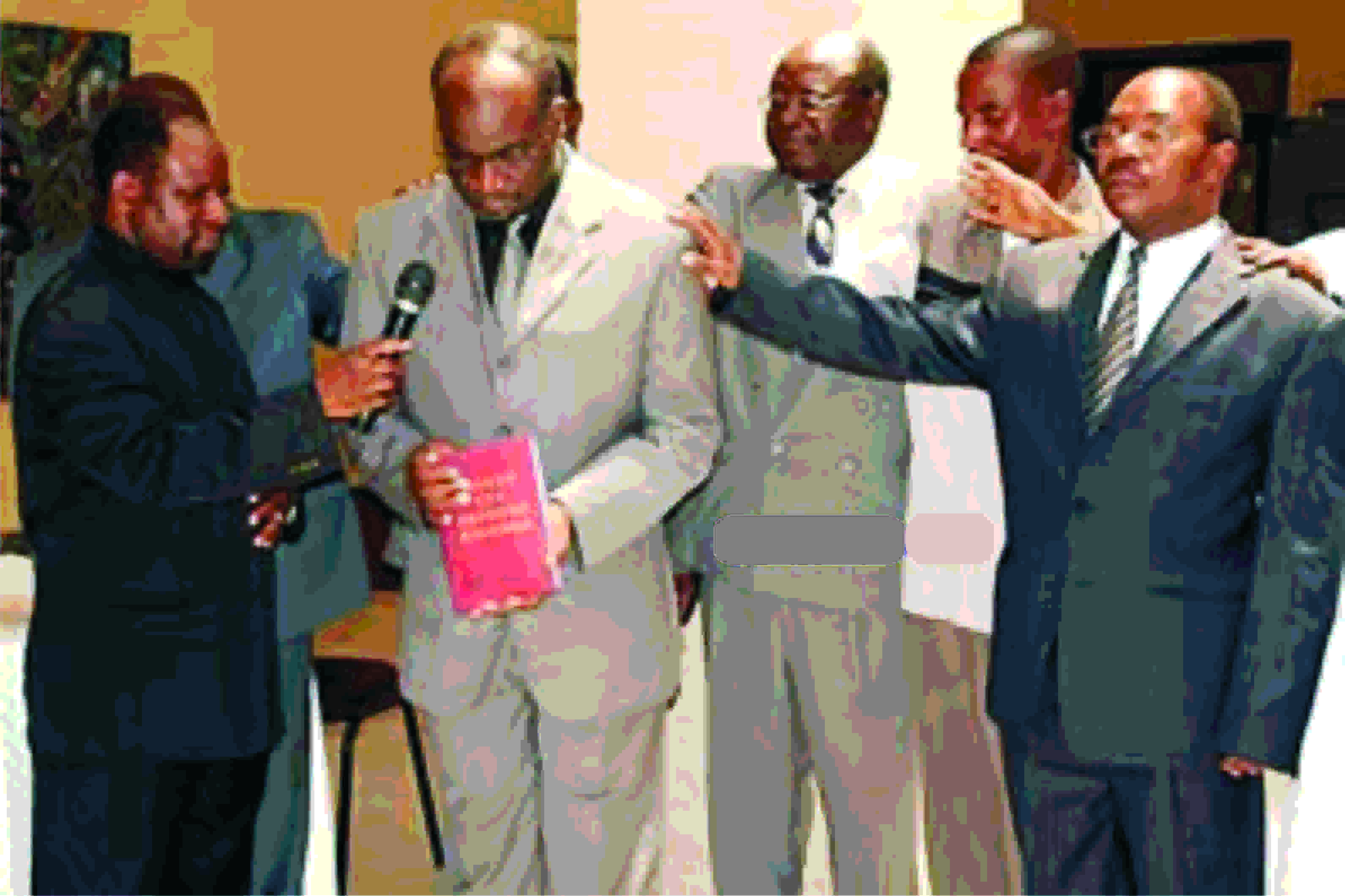 The Mbunda Bible launch in Lusaka, Zambia in the year 2008